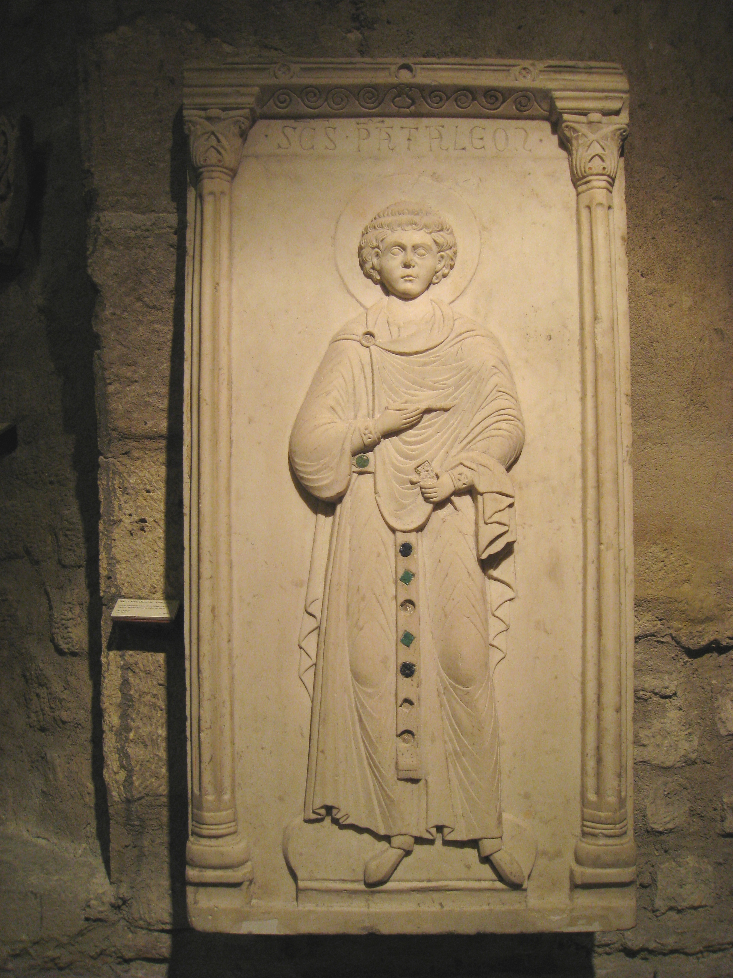 Hôtel de Cluny, Paris, France - bas relief of St. Pantaleon. This work is from the middle ages, and the museum imposed no restrictions on photography (except for prohibiting flash) both in writing and when I explicitly asked. Thus the original work itself is free from intellectual property restrictions.